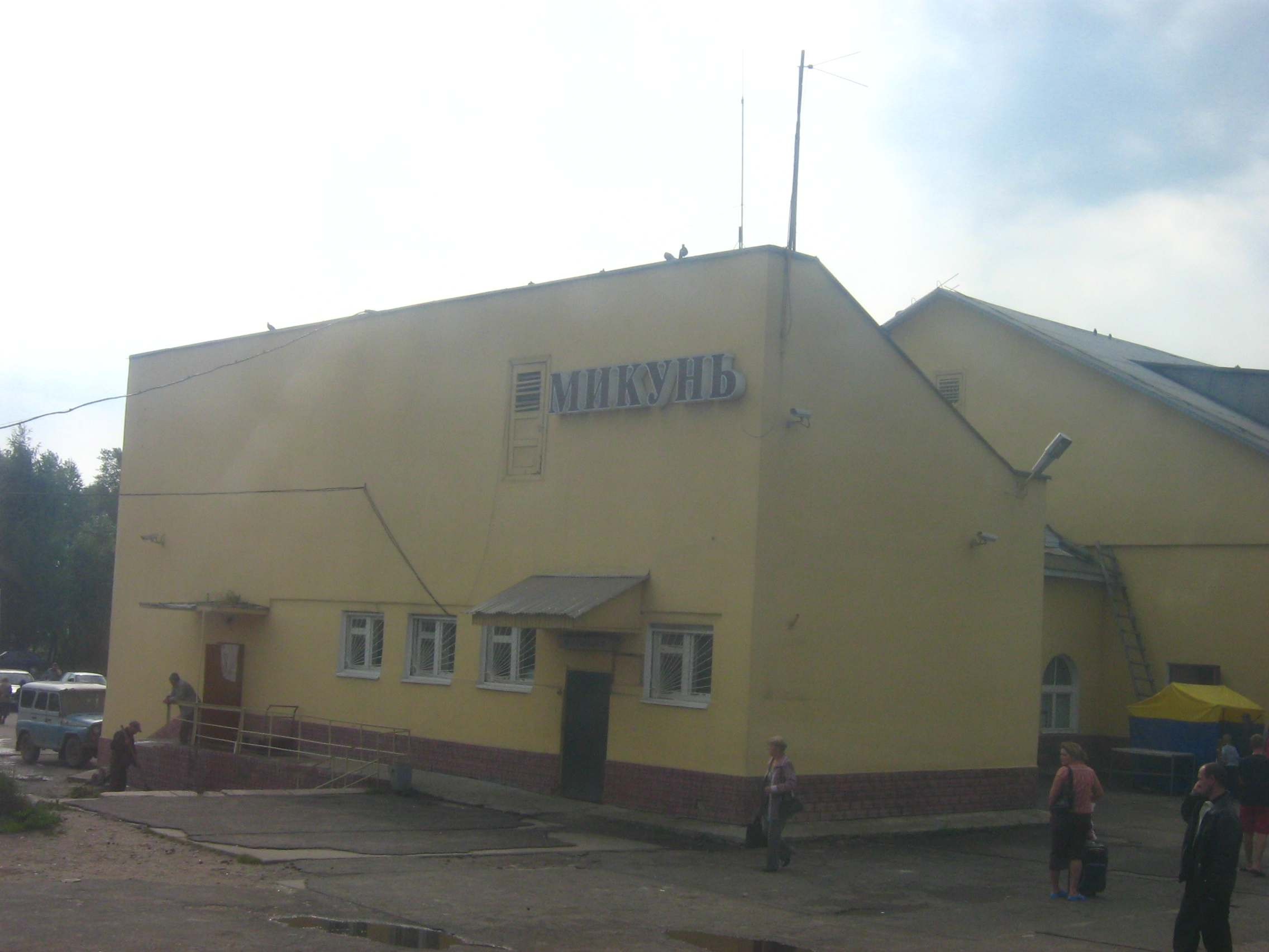 Railways Station in Mikun city, Republic of Komi, Russian Federation